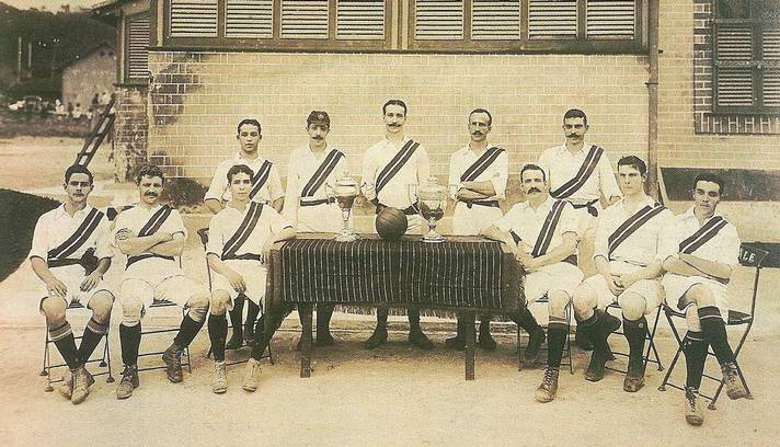 The Fluminense football team of 1908 that won the Campeonato Carioca championship that year, posing with the trophies.